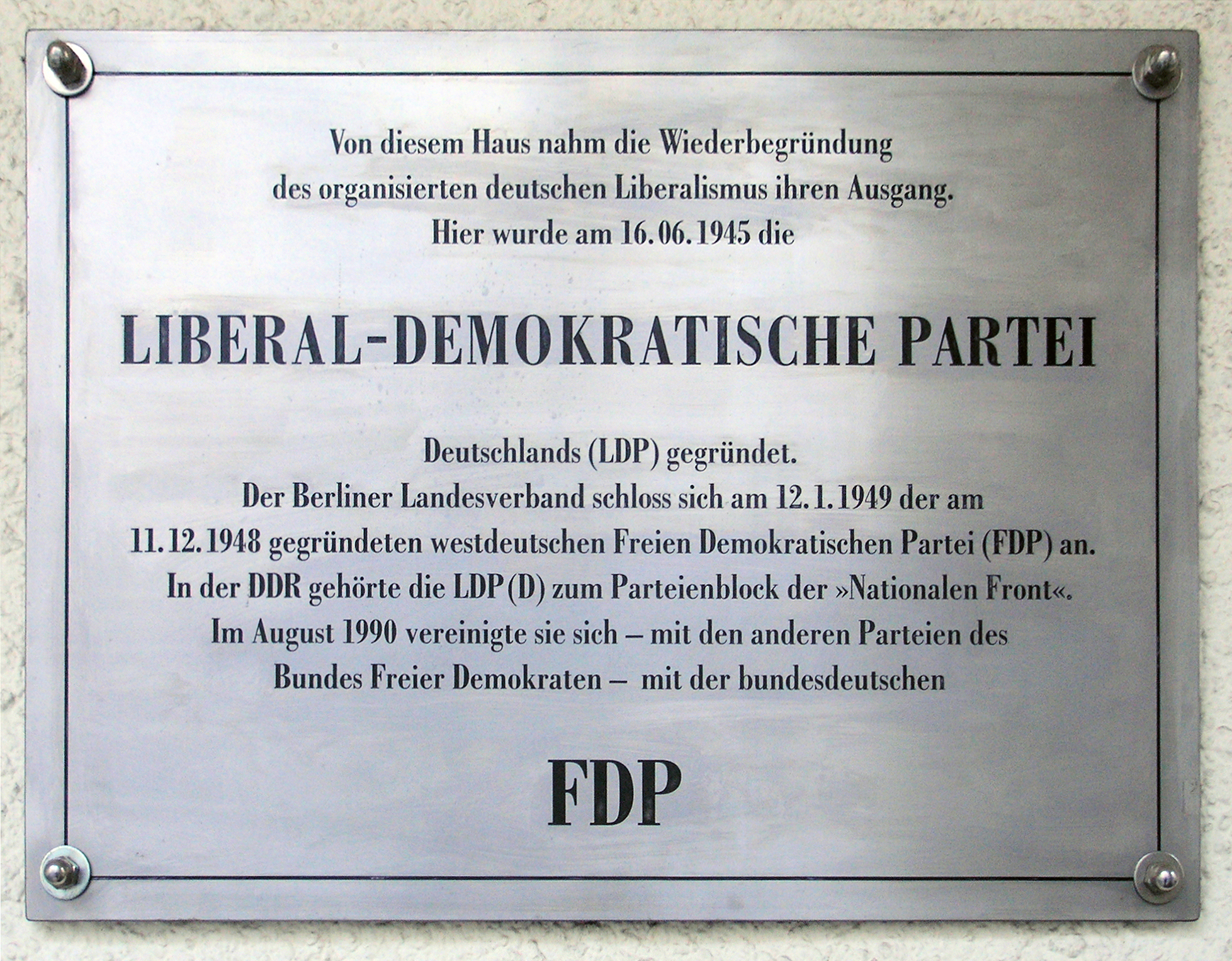 Memorial plaque, Liberal-Demokratische Partei, Bayerische Straße 5, Berlin-Wilmersdorf, Germany